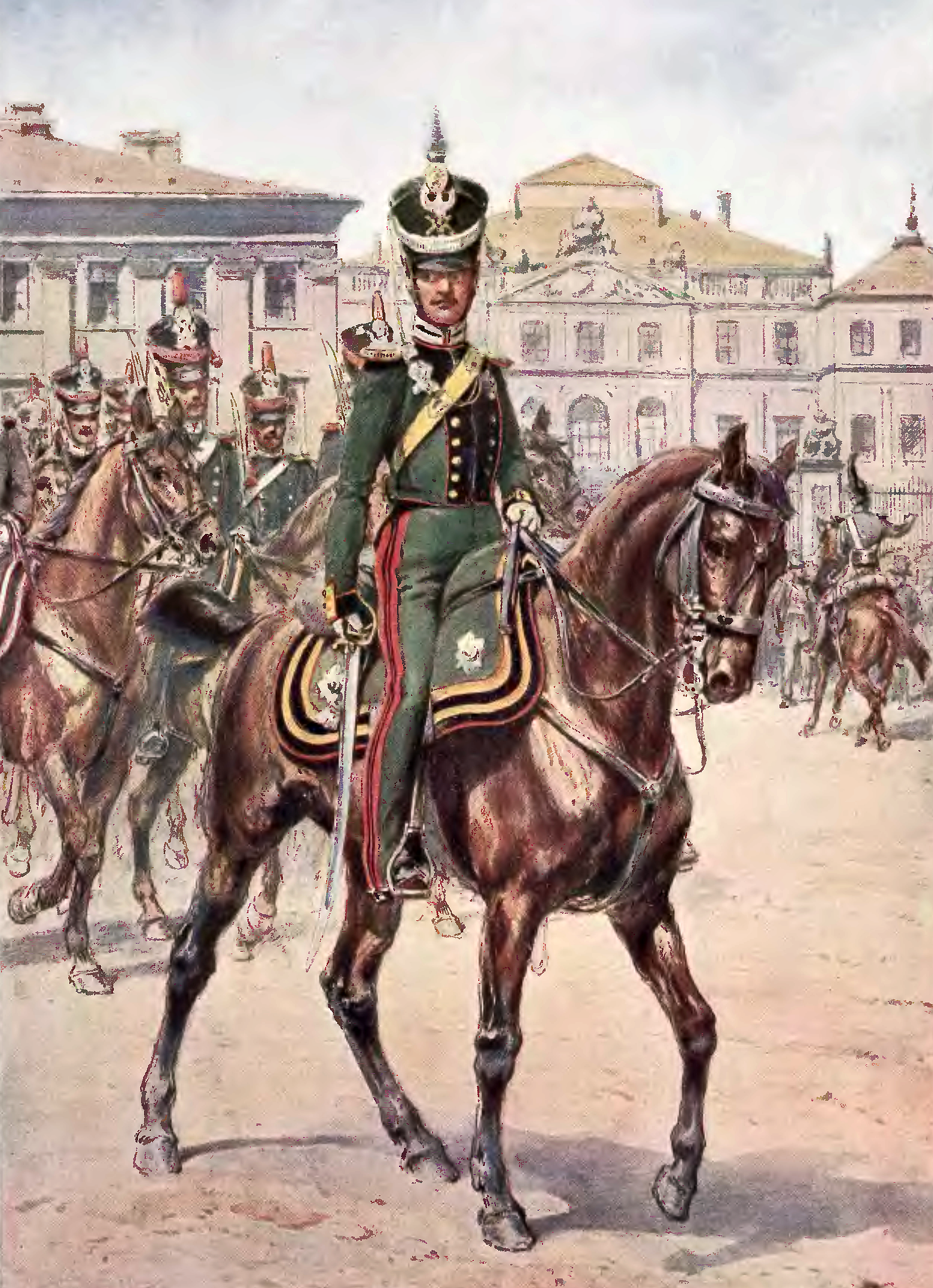 Mounted Guard-artilry-officer, Congess Poland (1815-1830).